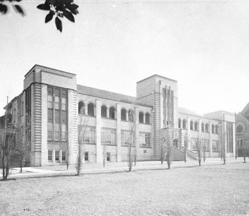 Exterior, Newington College Preparatory School (taken for Building Publishing Co)